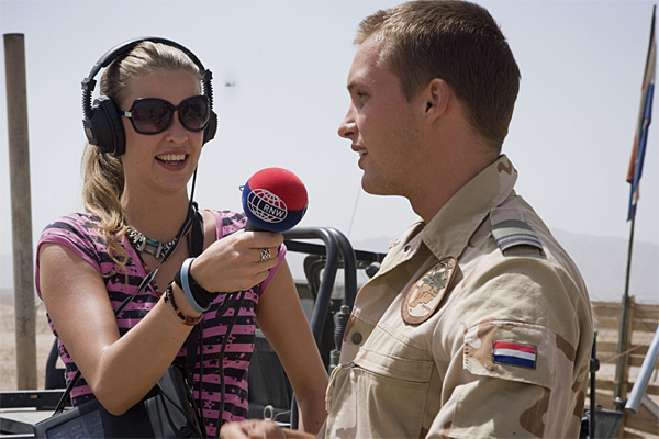 Annemieke Schollaardt van Uruzgan.FM interviewt militairen op Kamp Holland voor haar radio-uitzending.